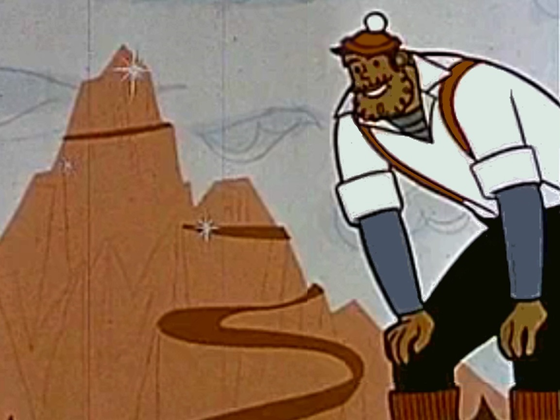 A still from the 1959 cartoon "Paul Bunyan" part of a series entitled, "Mel-O-Toons" produced by New World Productions and syndicated by United Artists. The still is an illustration of "fakelore" showing Paul Bunyan building the Great Rock Candy Mountains.